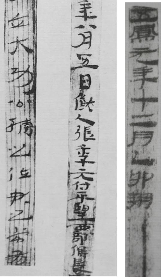 Details of Two Han dynasty Wood Strip Documents, about ACE 1st-2nd century Excavated by Aurel Stein